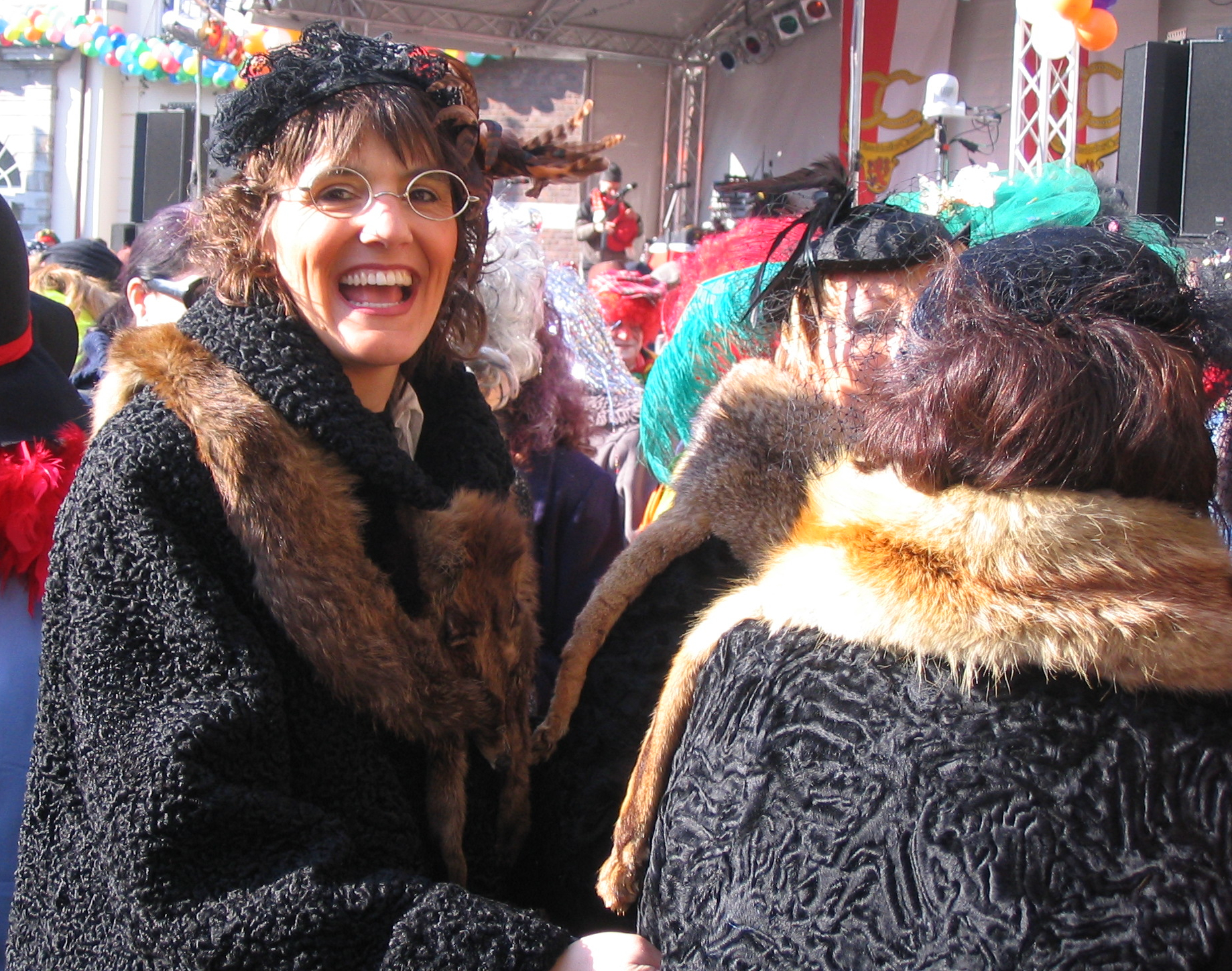 Carnival in Düsseldorf.